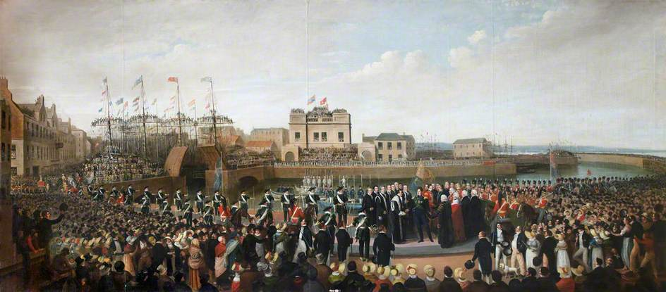 George IV landing at Leith by Alexander Carse died 1843